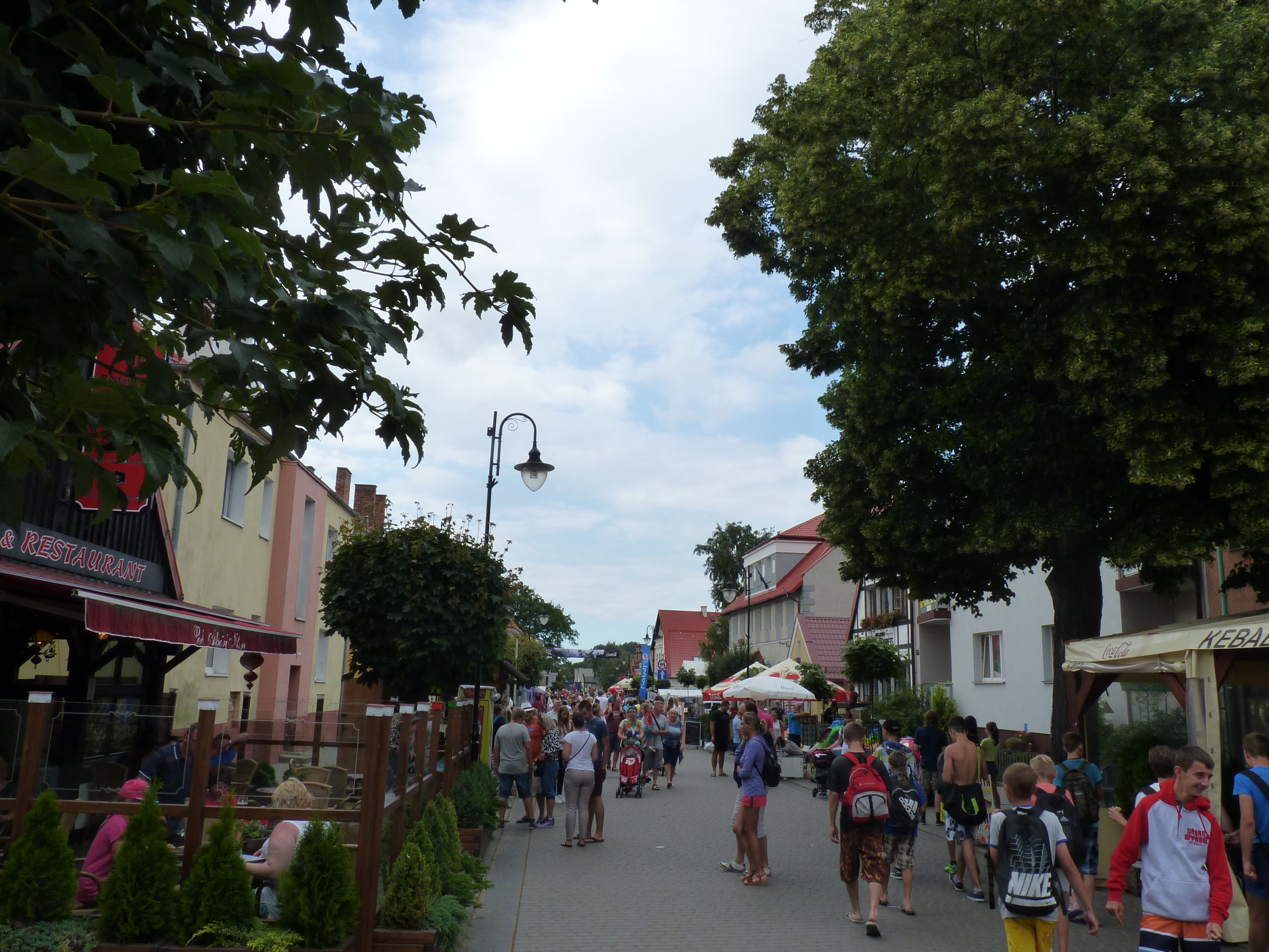 Looking roughly north-west along Ulitsa Wiejska in Hel, Poland